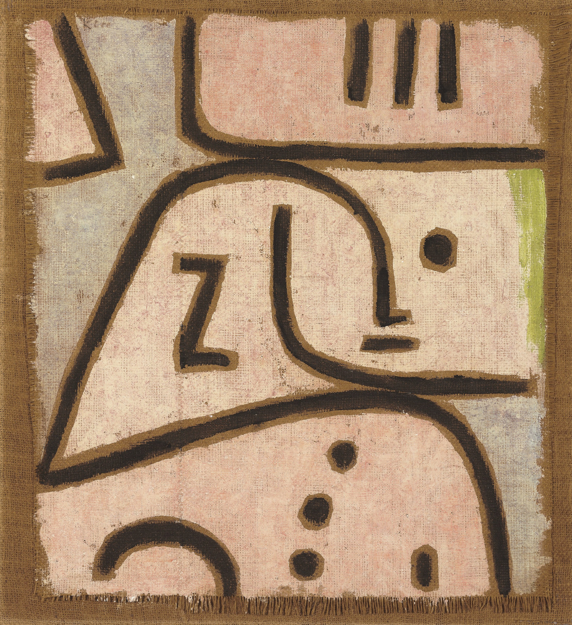 WI (In Memoriam). Signed 'Klee' (upper left); signed again, numbered and dated 'Klee J15 1938'. Watercolor, gouache and plaster on burlap. Image: 52 x 45.5 cm